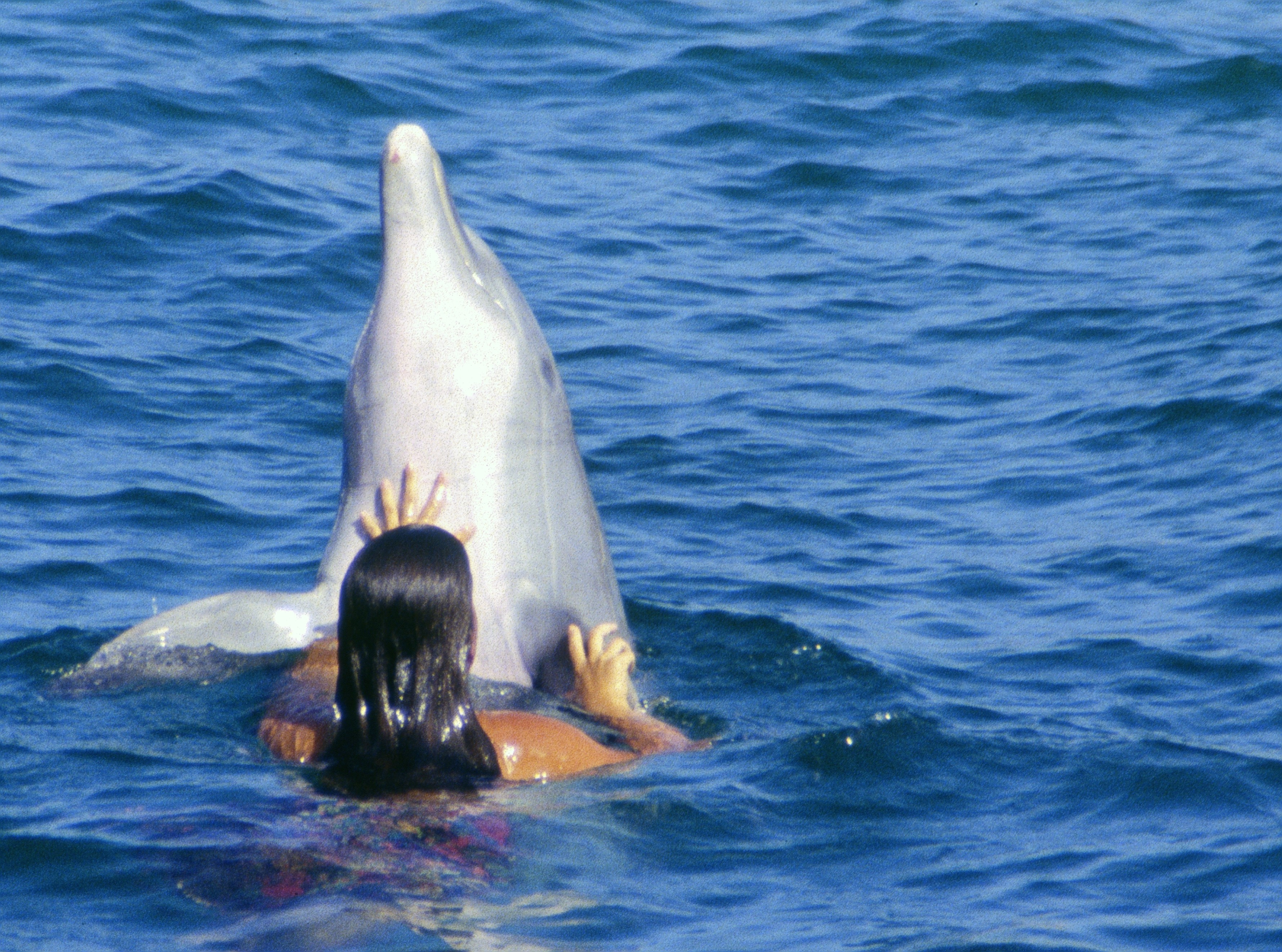 girl playing with bottlenose Dolphin / Tursiops truncatus in Hawaii